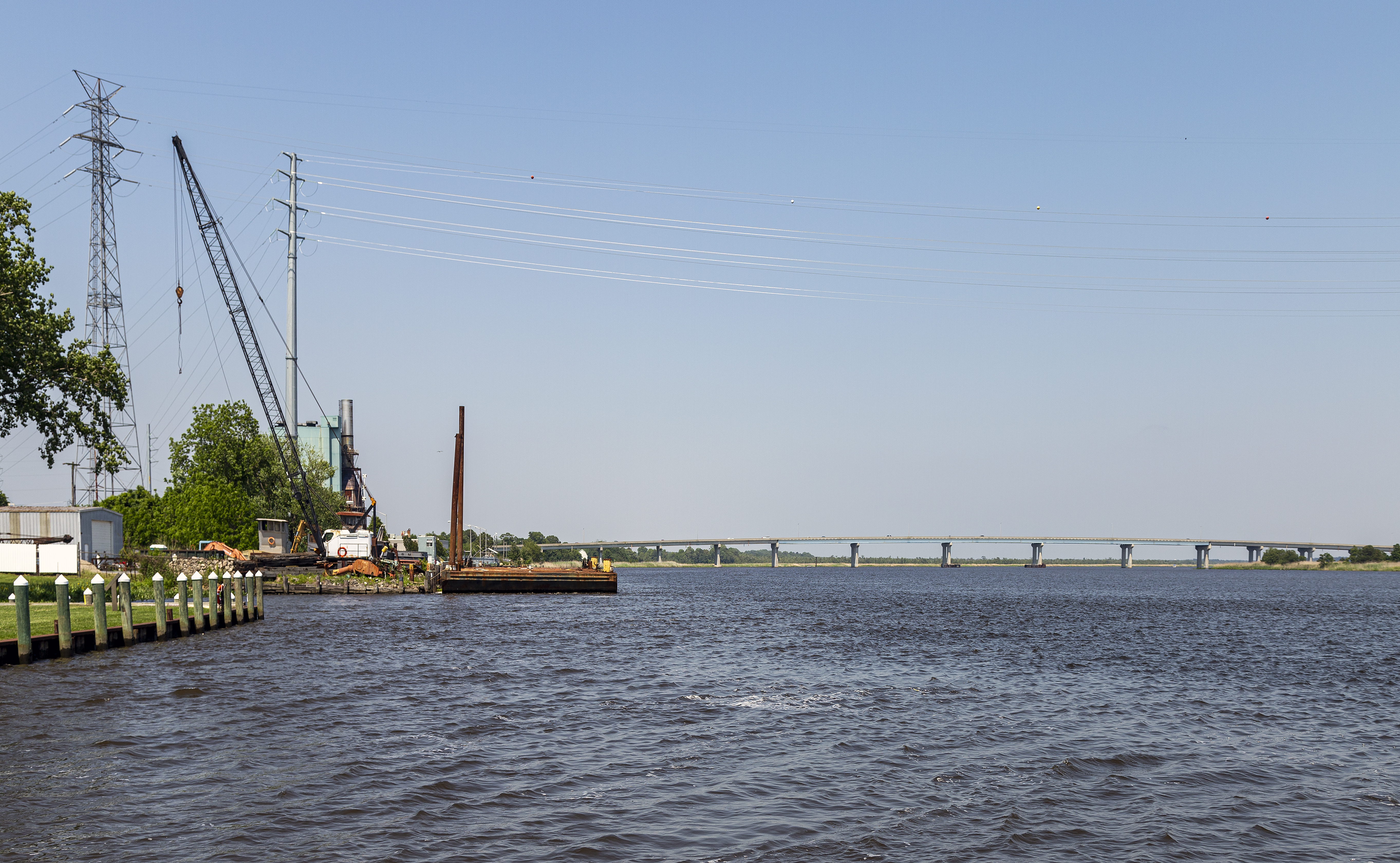 The Nanticoke River at Vienna, Maryland, USA, with the US 50/Nanticoke Memorial Bridge in the background